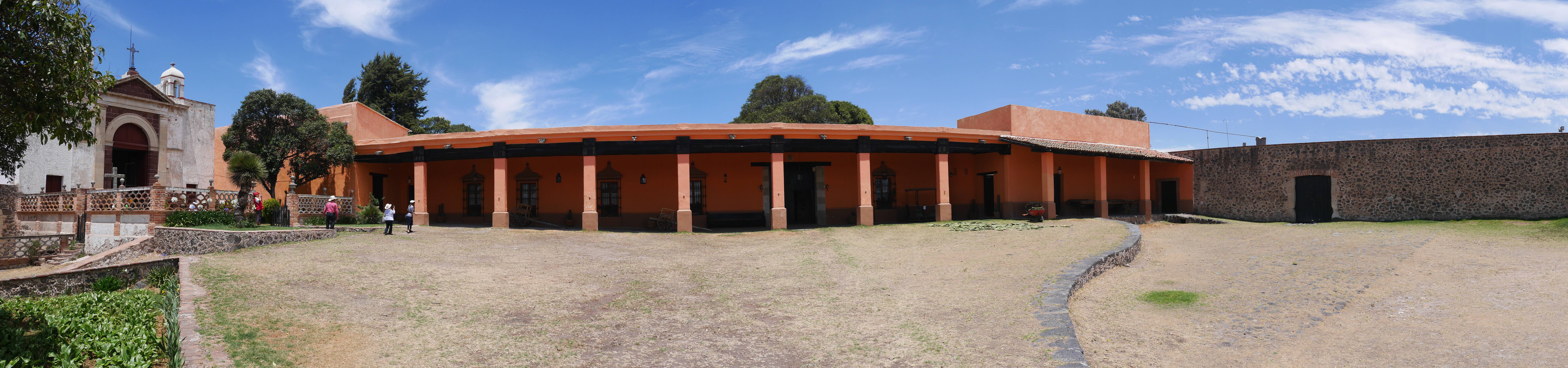 Hacienda San Antonio Tochatlaco